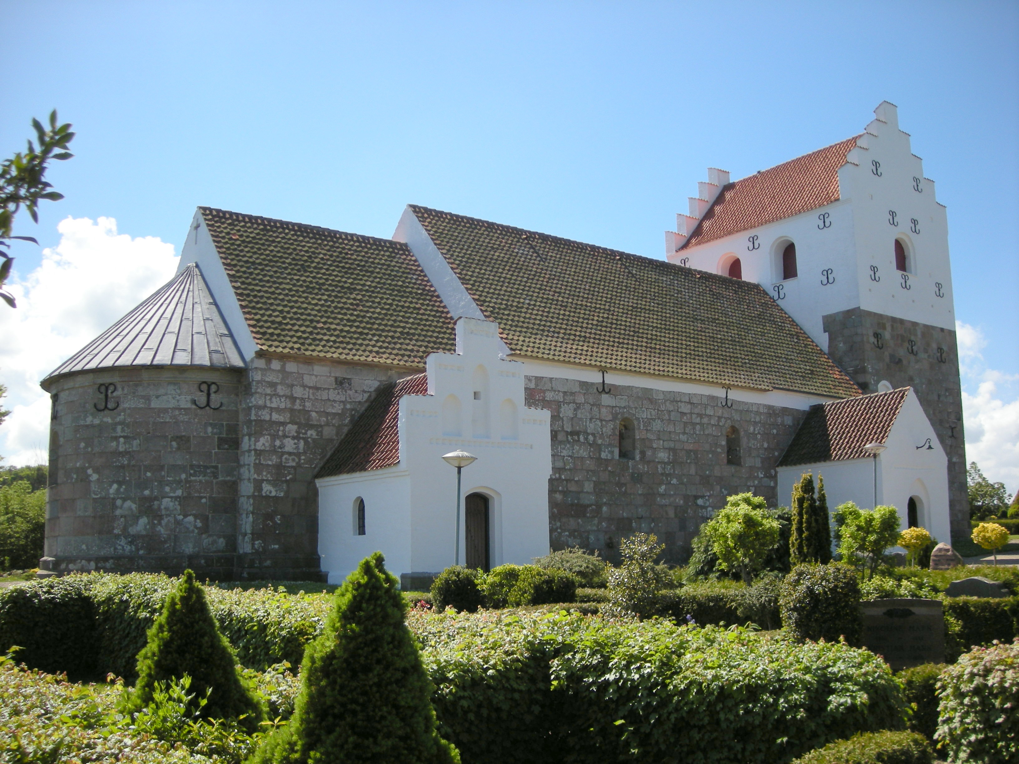 Øster Hornum Church, Municipality of Rebild, Region Northern Jutland, Denmark.